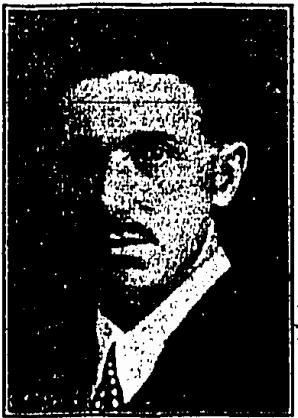 Norman Lockhart Smith, The Secretary Chinese Affairs